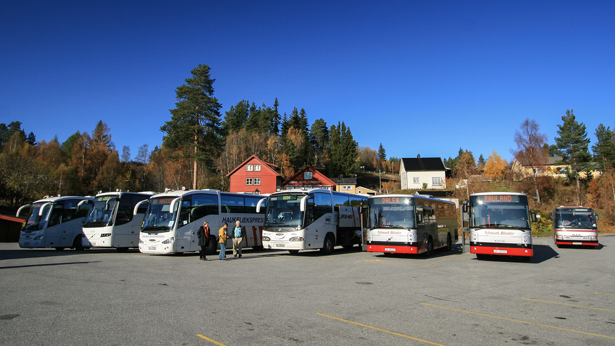 Bus meeting in Åmot, Vinje.